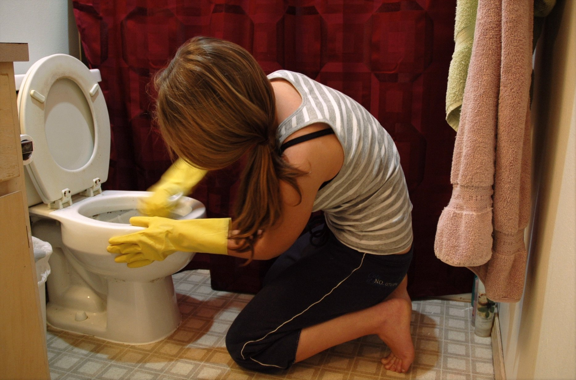 Woman cleaning toilets.